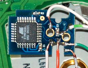 Wiikey modchip with wired install